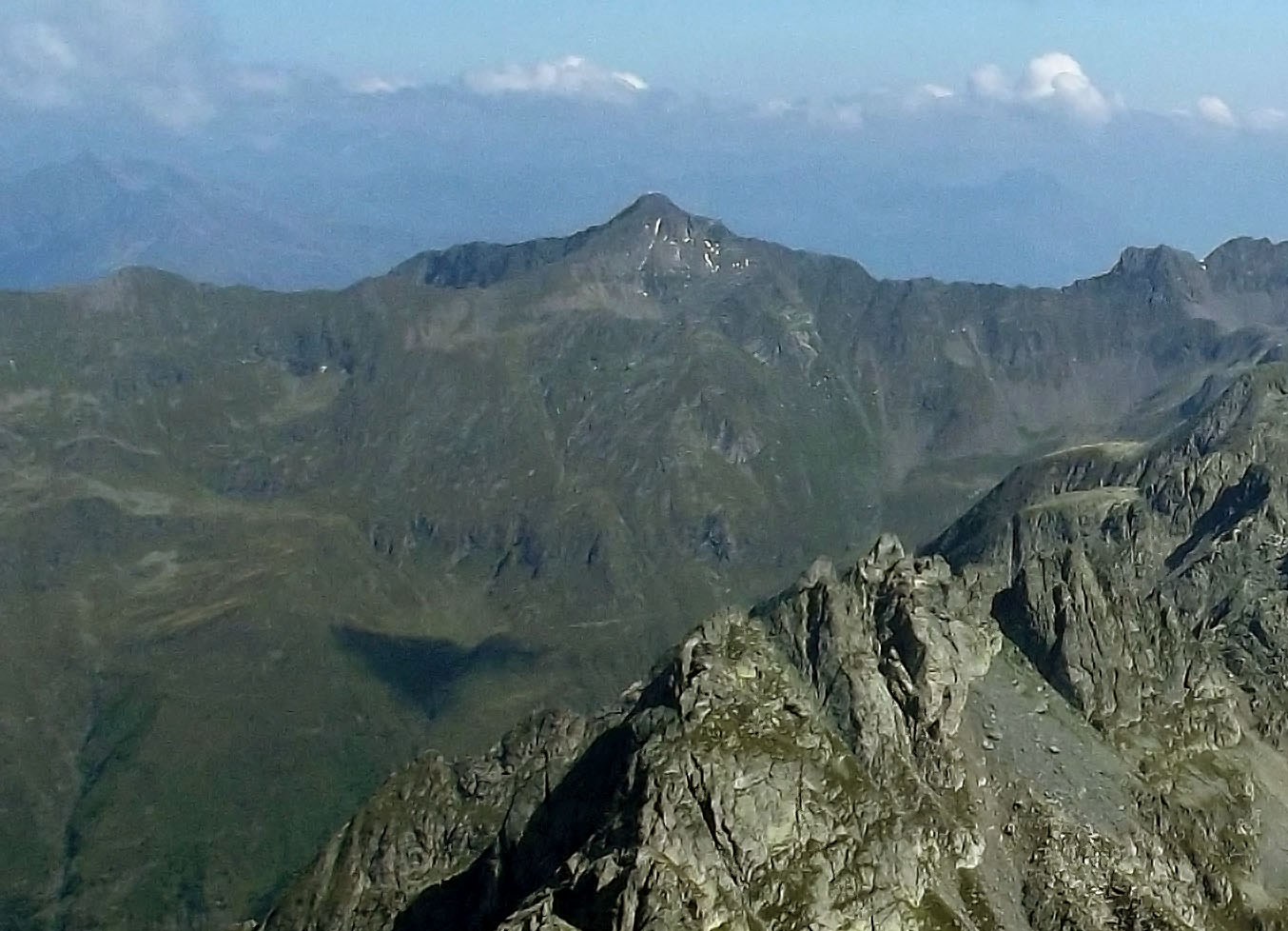 Pizzo Rodes seen in the distance from Pizzo del Diavolo di Tenda